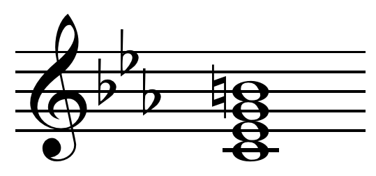 Minor major seventh chord on C. Created by Hyacinth (talk) 05:40, 1 December 2010 using Sibelius 5. See also: :Image:Minor major seventh chord on C.mid